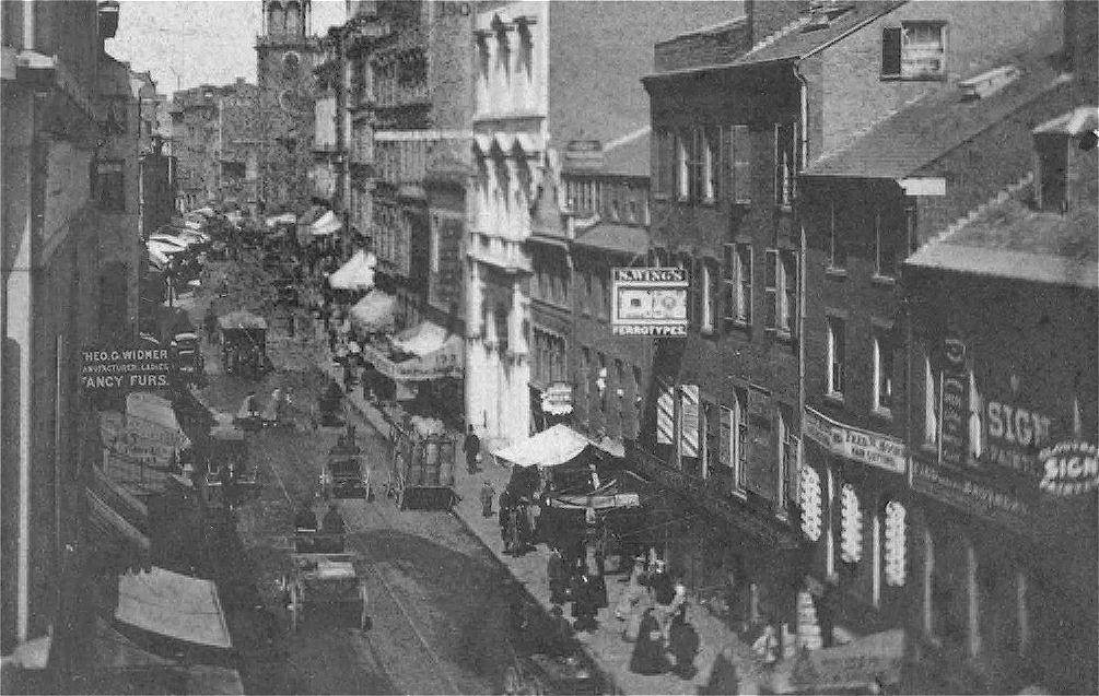 Detail of: Wikimedia Commons file:Washington_Street_from_Winter_Street,_from_Robert_N._Dennis_collection_of_stereoscopic_views.png